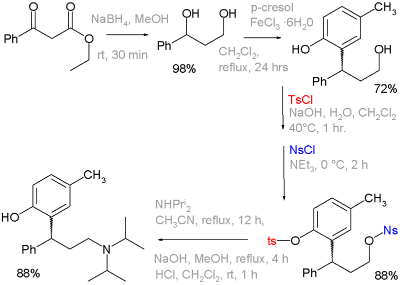 Tolterodine Synthesis